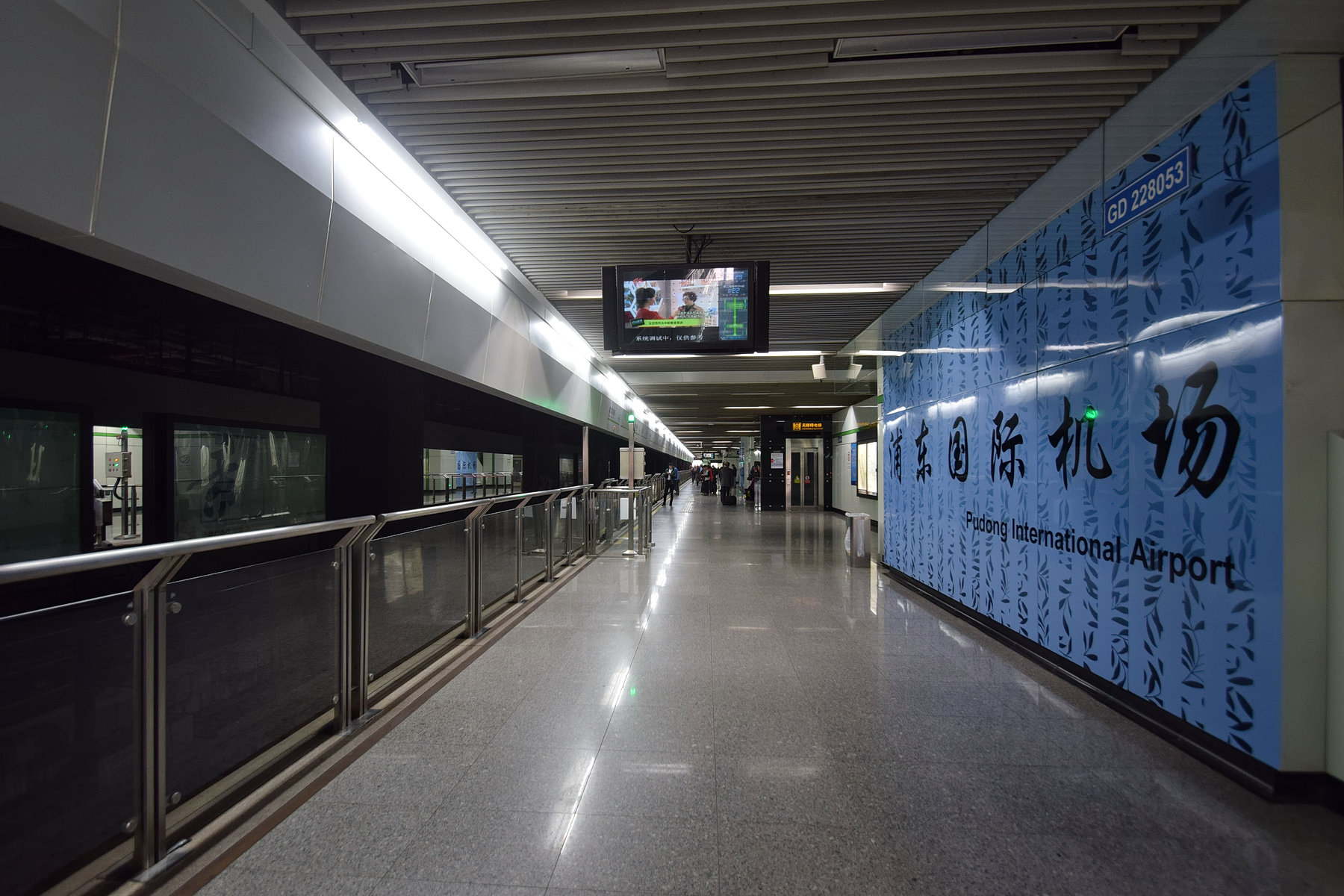 Line 2 Platform of Pudong International Airport Station, Shanghai Metro